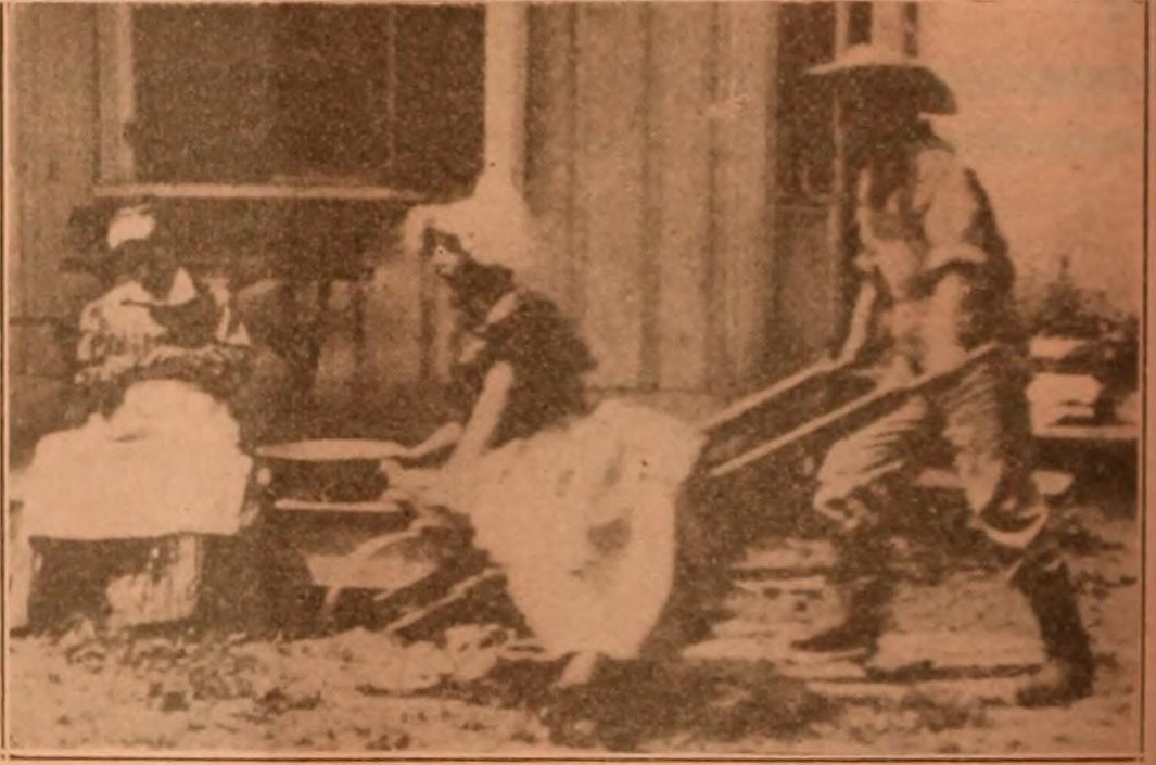 A film still from the Thanhouser Company's 1910 production of Lena Rivers.